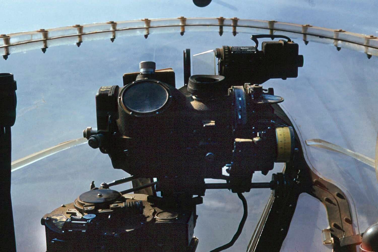 A Norden bombsight in the nose of a U.S. Air Force Douglas B-26C Invader during the Korean War.